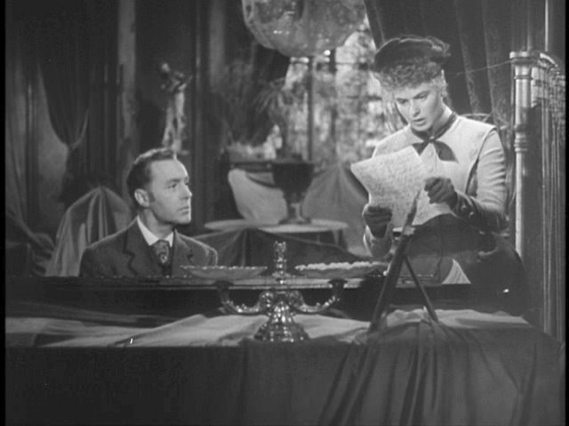 This screenshot shows Ingrid Bergman and Charles Boyer in a scene where she discovers a letter.